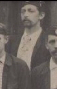 Vincens Recinsky